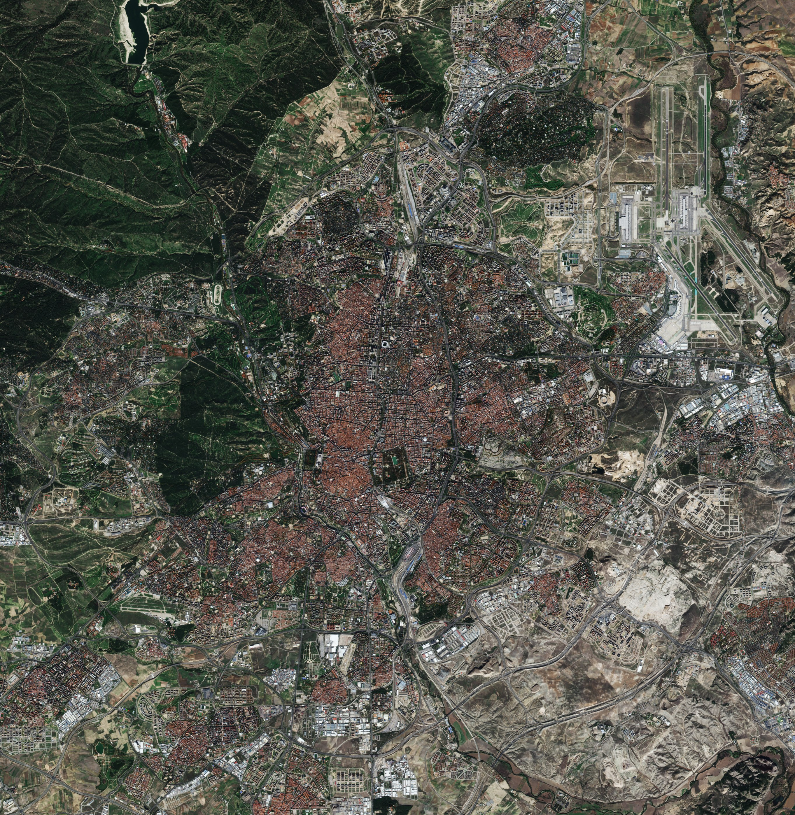 The diverse landscapes of the autonomous Community of Madrid in the heart of Spain are evident in this week’s image. The community and country’s capital city is visible near the centre of the image. Zooming in, we can see the Buen Retiro park just east of the city centre with its large, artificial pond. About 3.5 km due north sits the Santiago Bernabéu football stadium. Southeast of the stadium we can see another circular structure: the Las Ventas bullfighting ring. In the upper left corner of the image is the El Pardo mountain and protected natural park, which is popular for mountain biking. The other areas surrounding Madrid are blanketed with agricultural structures. East of the city are large fields along the Jarama river, and more areas of agriculture appearing brown further east still. This image, also featured on theEarth from Space video programme, was taken by the Sentinel-2A satellite on 16 November 2015. Launched in June 2015, Sentinel-2 can map changes in land cover such as forest, crops, grassland, water surfaces and artificial cover like roads and buildings in cities. Early results from the mission on mapping changes in land cover are expected to be presented at the upcoming Living Planet Symposium, held in Prague in May. The event brings together scientists and users to present their latest findings on Earth’s environment and climate derived from satellite data.